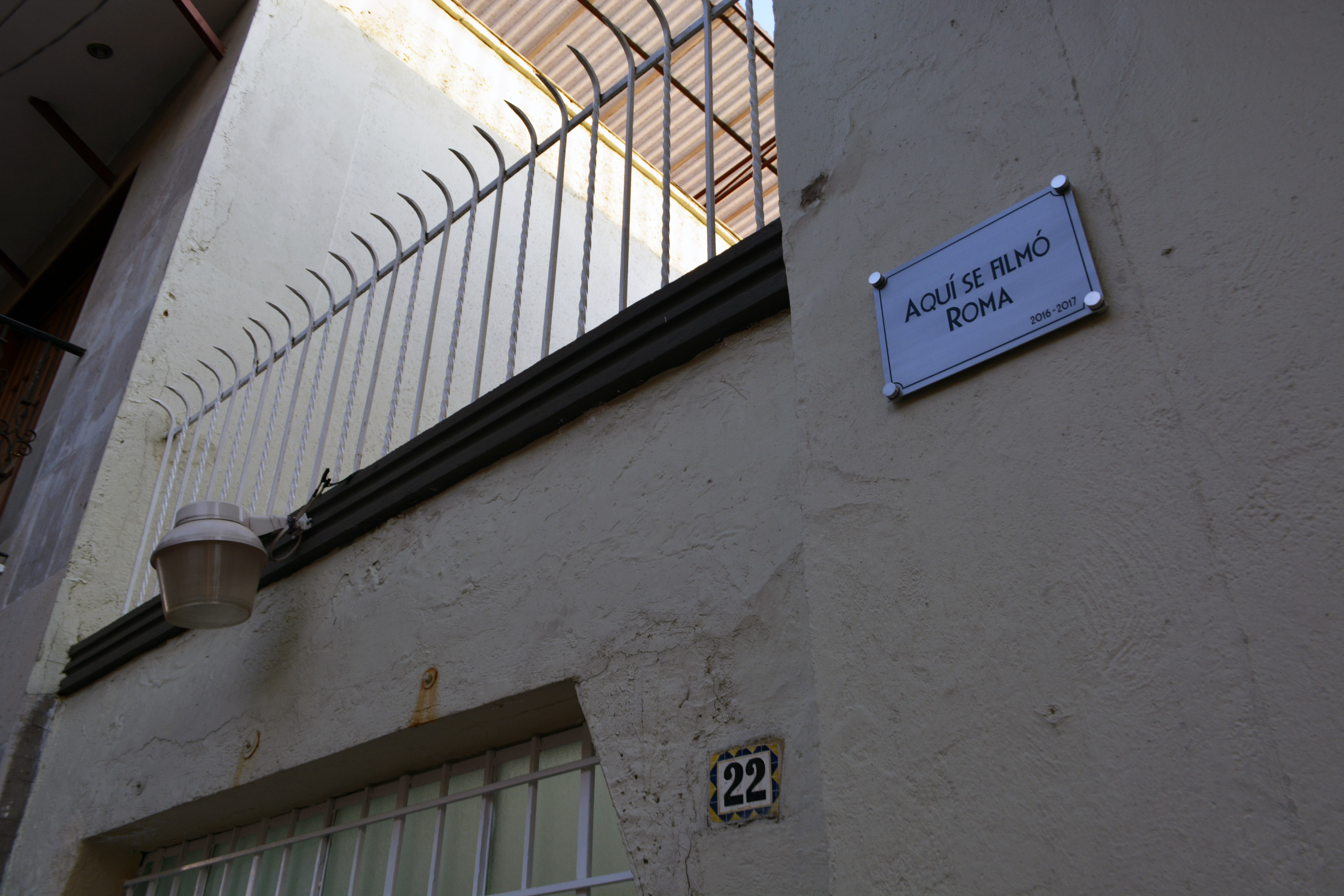 Facade of the house in Tepeji 22, Colonia Roma, location of the film by Alfonso Cuarón.